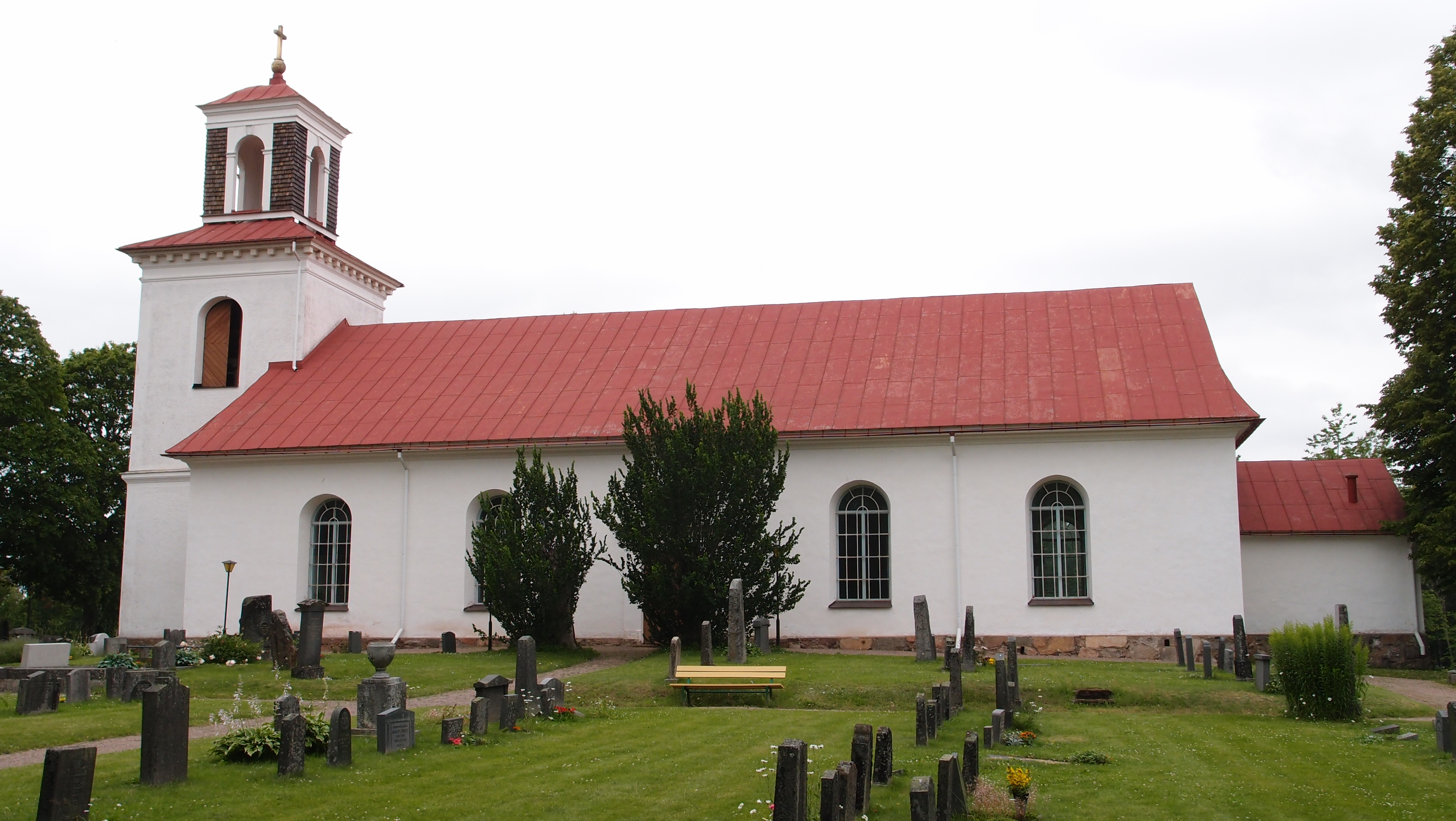 Kråkshult Church